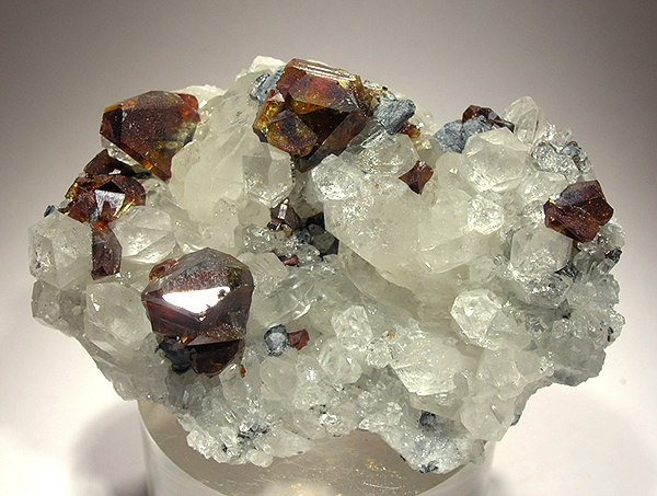 Sphalerite, Quartz Locality: Rucheng Mine, Chaojia, Nuanshui, Rucheng County, Chenzhou Prefecture, Hunan Province, China (Locality at ) Sharp, gemmy red crystals to 1.25 cm perched on quartz matrix, from the find of last fall that was really redefined Chinese sphalerites! 7.1 x 5 x 3 cm